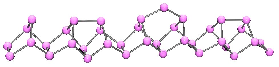 I drew it using literature data to tell me where to put the atoms